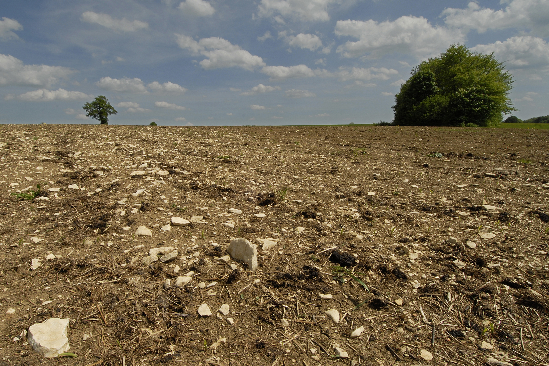 Field in Westerheim Swabian Alb after a natural fertilizing with manure. The field area is huge as it is normal after land consolidation. The soil is dotted with stones, some of them quite big. But modern farming, using firm and strong machinery, achieves satisfying results even so.